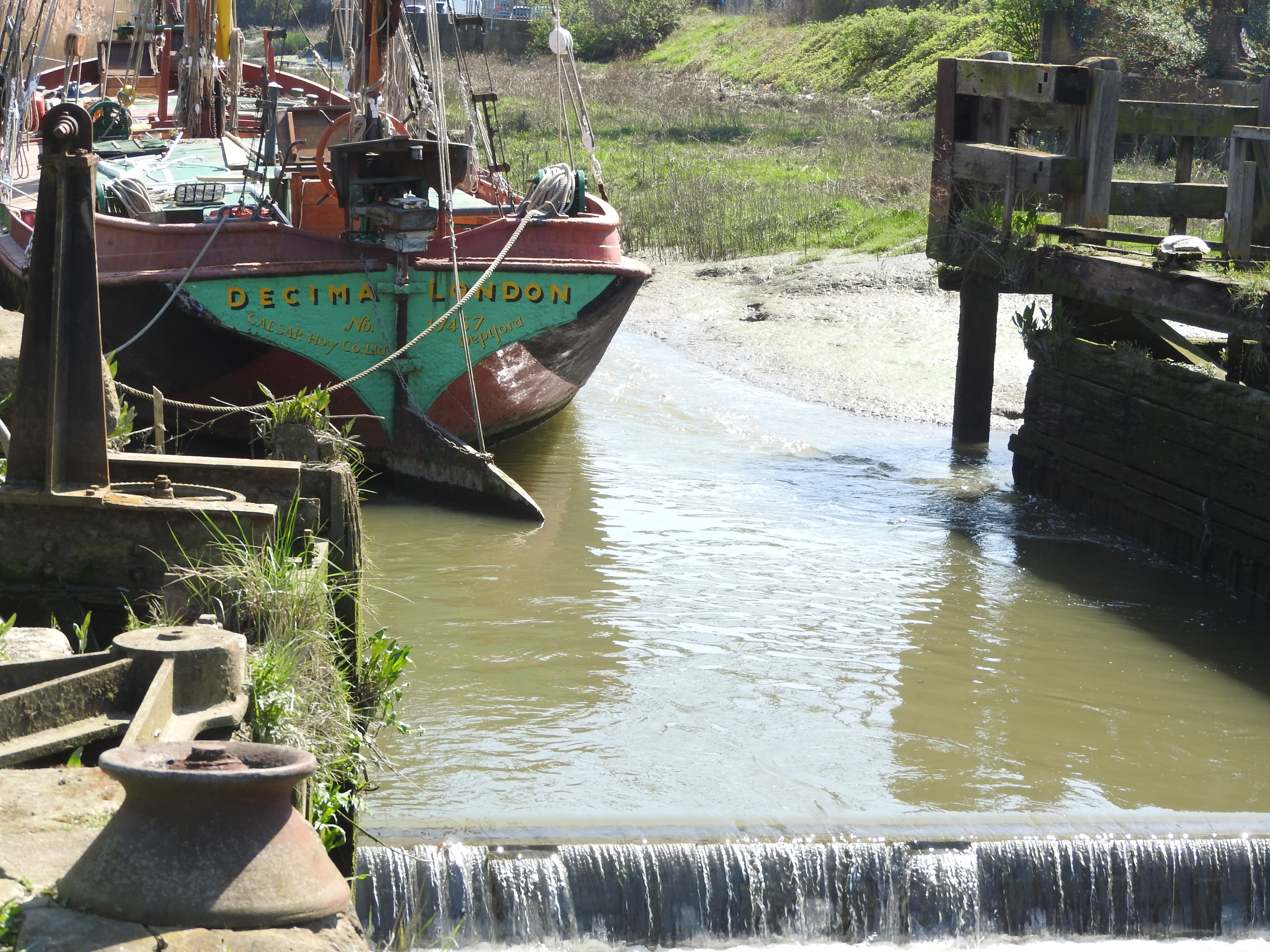 SB Decimaon the River Darent, in Dartford.